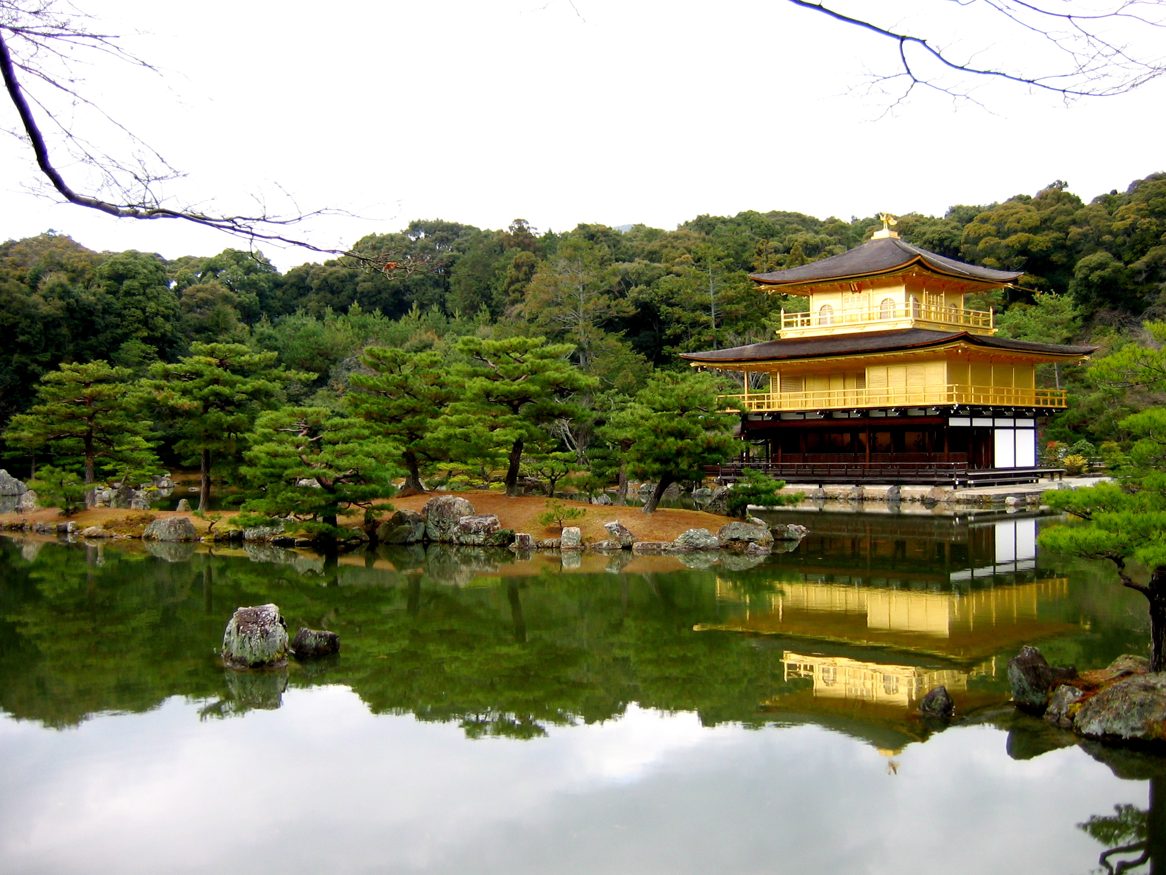 Kinkaku-ji.